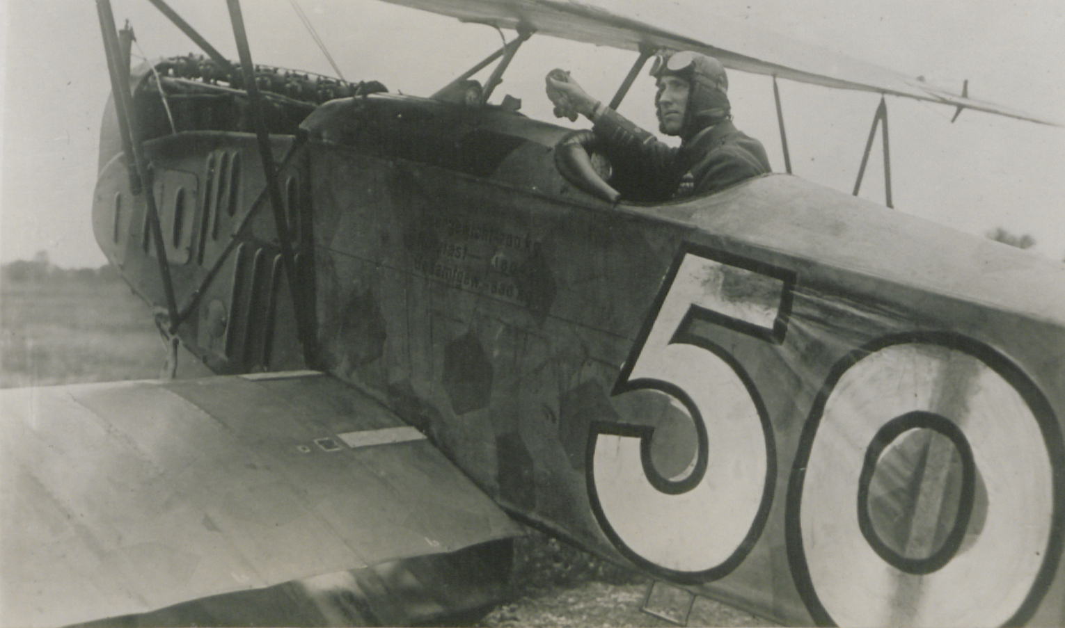 Original caption: “Col. Barker, VC, in one of the captured German aeroplanes against which he fought his last air battle.”